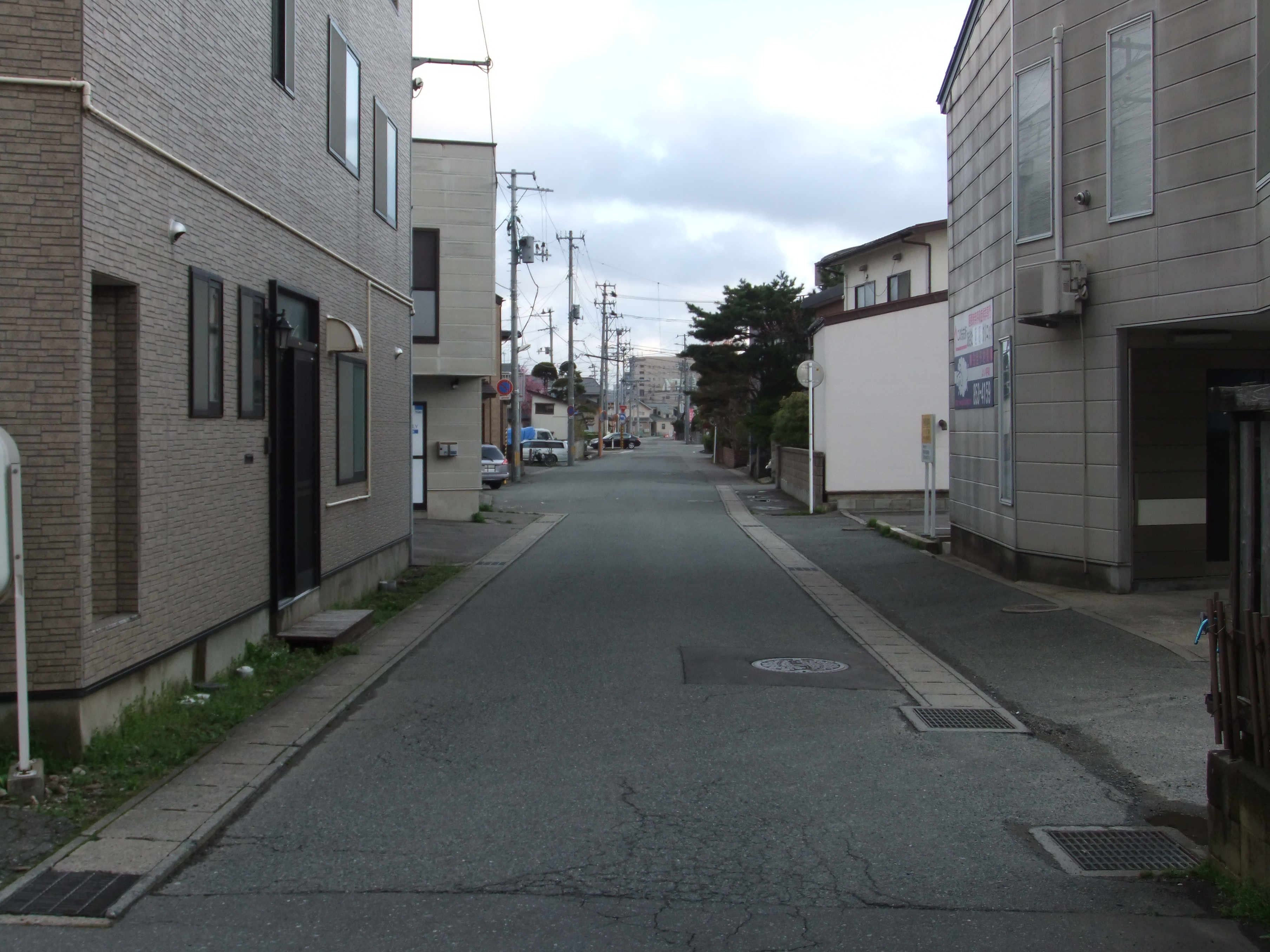 Nibetu sinrin tetudou (an abandoned forest railway) tracks at Tegatayamazakitoyu in Akita city.